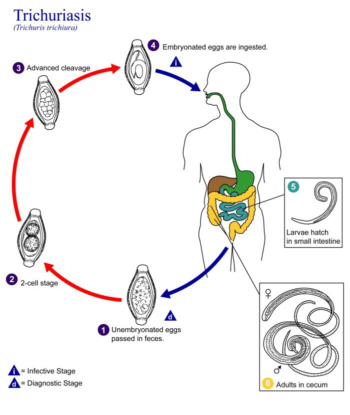 Trichuriasis [Trichuris trichiura] Life cycle of Trichuris trichiura The unembryonated eggs are passed with the stool. In the soil, the eggs develop into a 2-cell stage, an advanced cleavage stage, and then they embryonate; eggs become infective in 15 to 30 days. After ingestion (soil-contaminated hands or food), the eggs hatch in the small intestine, and release larvae that mature and establish themselves as adults in the colon. The adult worms (approximately 4 cm in length) live in the cecum and ascending colon. The adult worms are fixed in that location, with the anterior portions threaded into the mucosa. The females begin to oviposit 60 to 70 days after infection. Female worms in the cecum shed between 3,000 and 20,000 eggs per day. The life span of the adults is about 1 year.